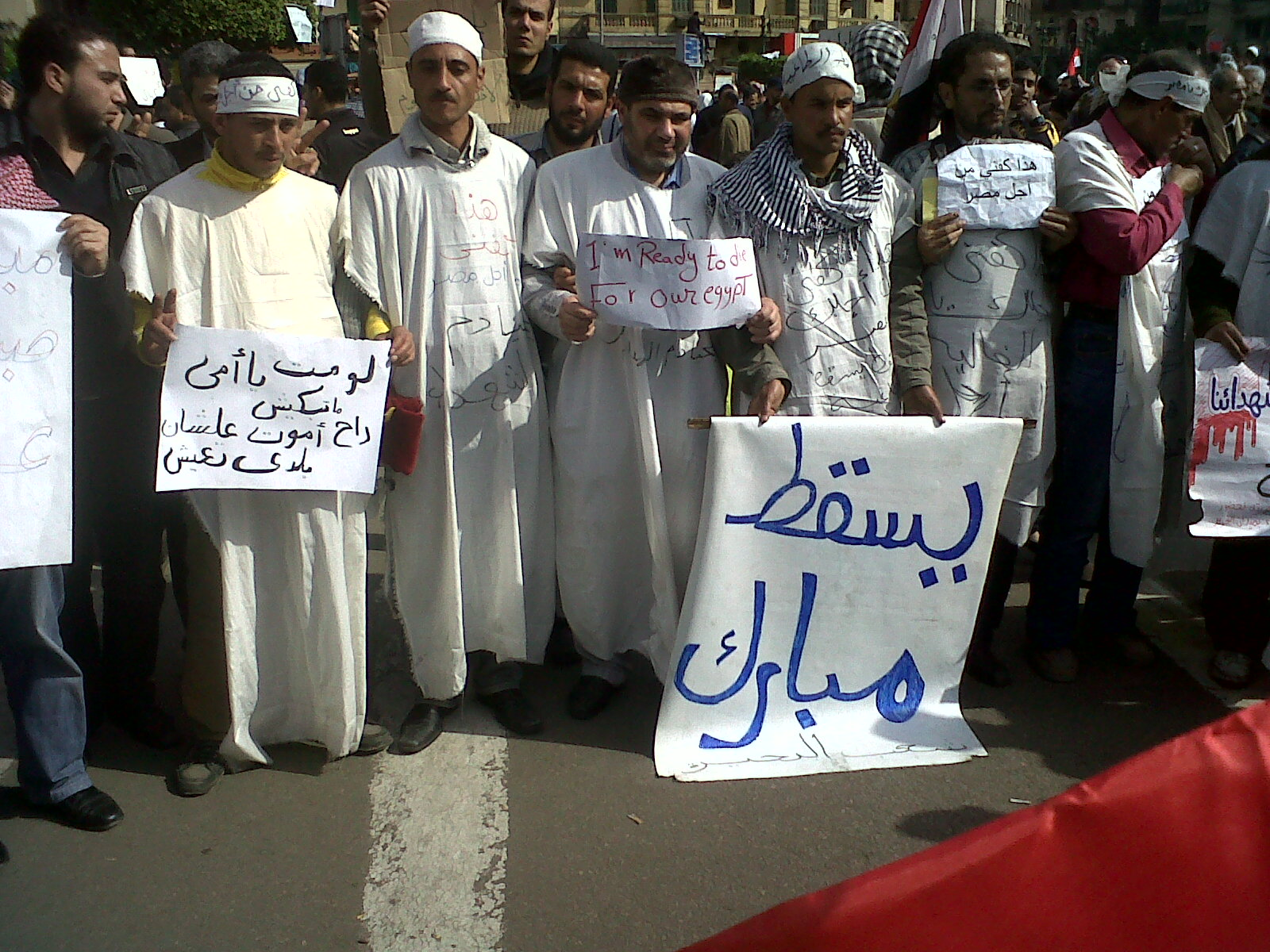 Protesters in Cairo (1st February 2011)